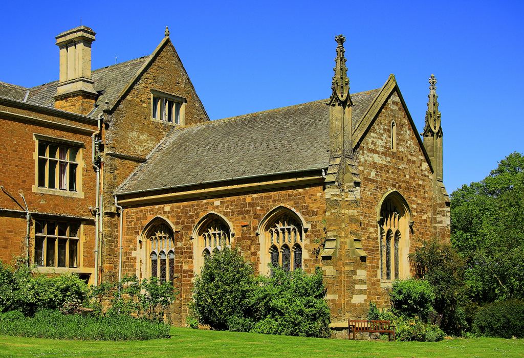 Medieval chapel of Launde Abbey, Leicestershire